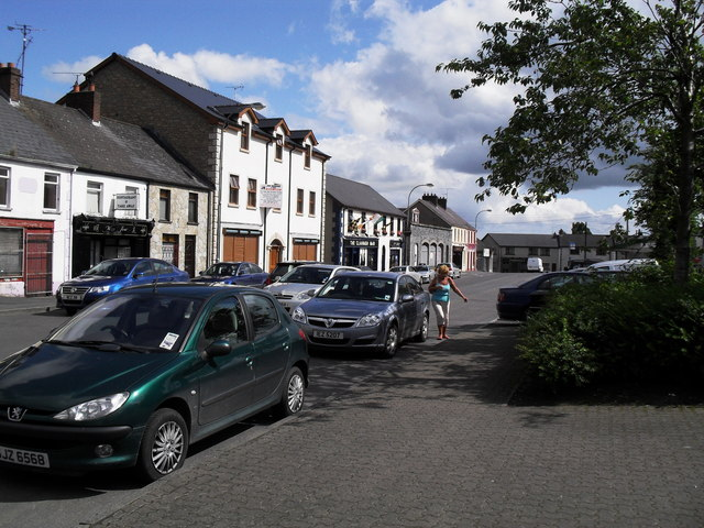 Cardinal O'Fiach Square, Crossmaglen Named after the Cardinal Tomas O'Fiach, who was originally from nearby Cullyhanna.